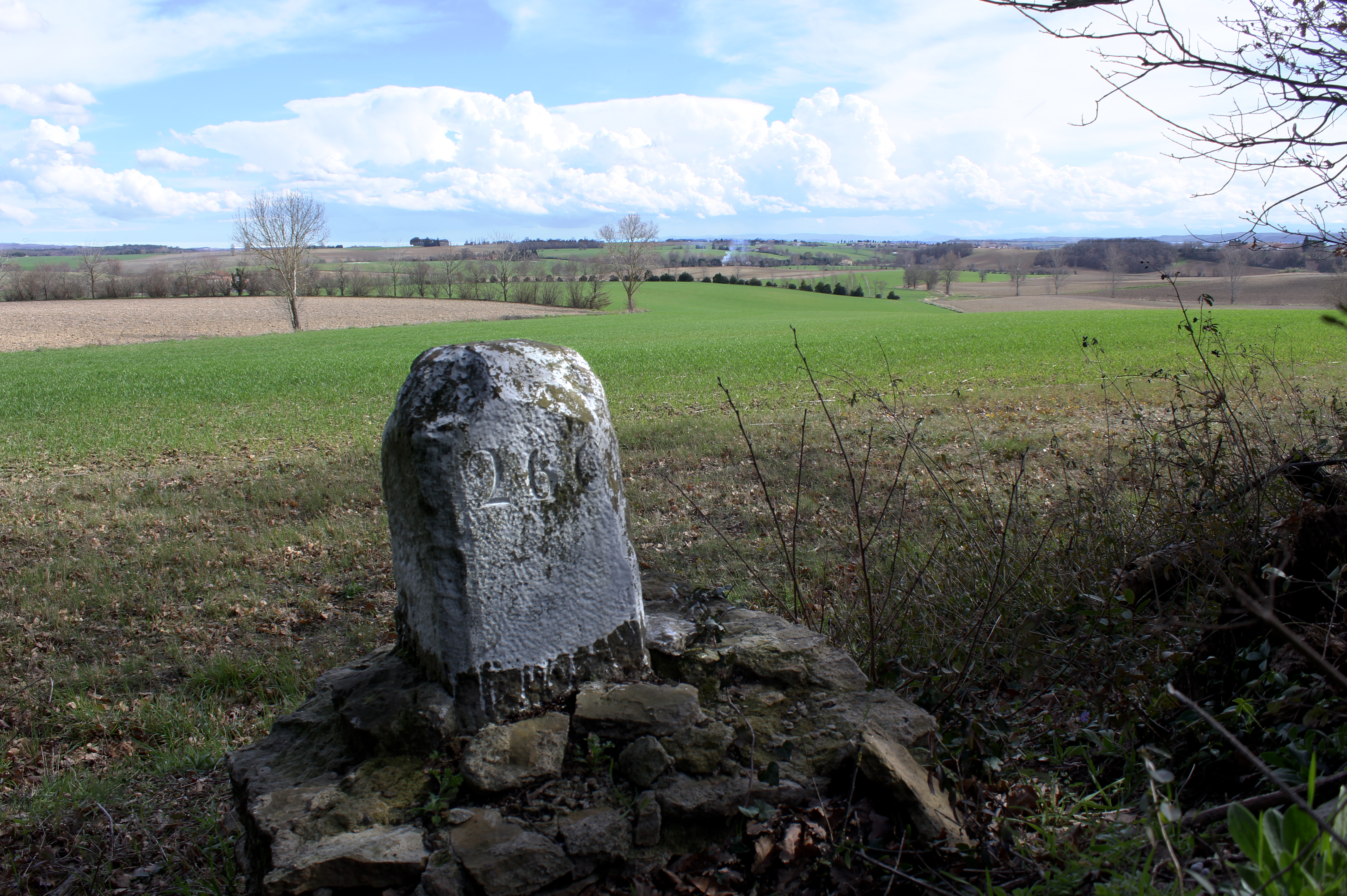 Boundary stone of the Canal du Midi, rigole de la plaine, Saint-Paulet, Aude, Languedoc-Roussillon, France